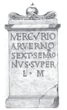 Picture of an ancient Roman stonework dedicated to "Mercurius Arvernus" found together with the "Gripswalder Matronensteine" from Meerbusch, North Rhine-Westphalia, Germany (CIL XIII, 08580 = Lehner 00185: "Mercurio / Arverno / Sext(us) Sempro/nius Super / l(ibens) m(erito)").